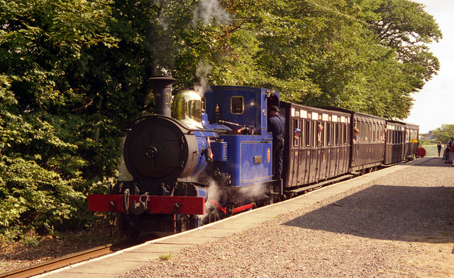 Isle of Man Railway, Port St Mary A train for Port Erin calls at Port St Mary station.